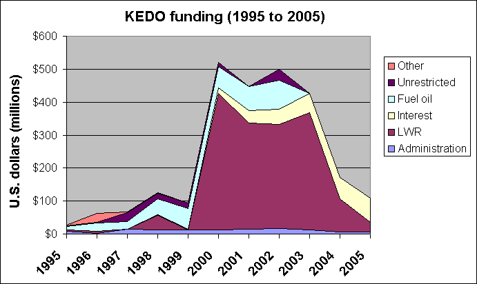 Chart of Korean Peninsula Energy Development Organization (KEDO) funding, and use of those funds, 1995-2005. Data from 2005 KEDO Annual Report.[1]